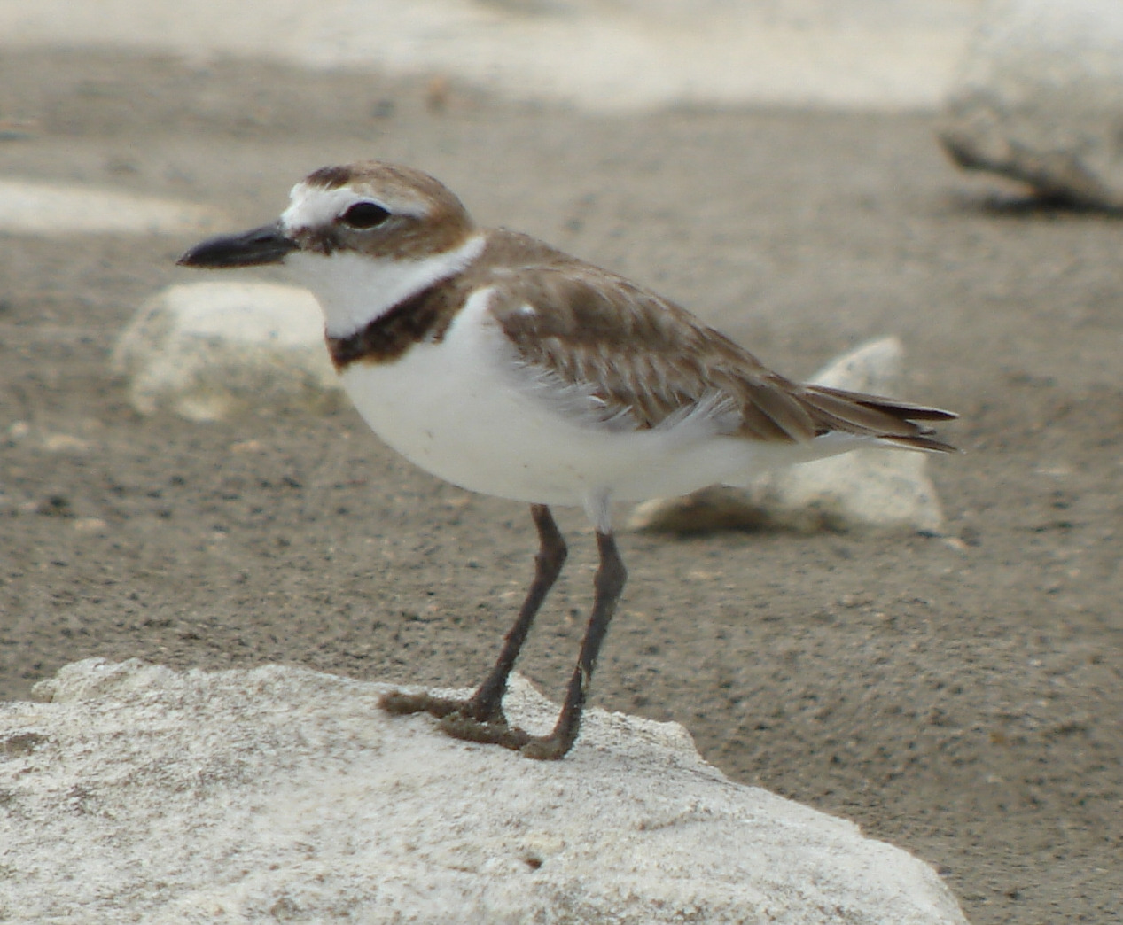 Wilson's Plover (Charadrius wilsonia) - Photographed at Pointe des Châteaux, Guadeloupe